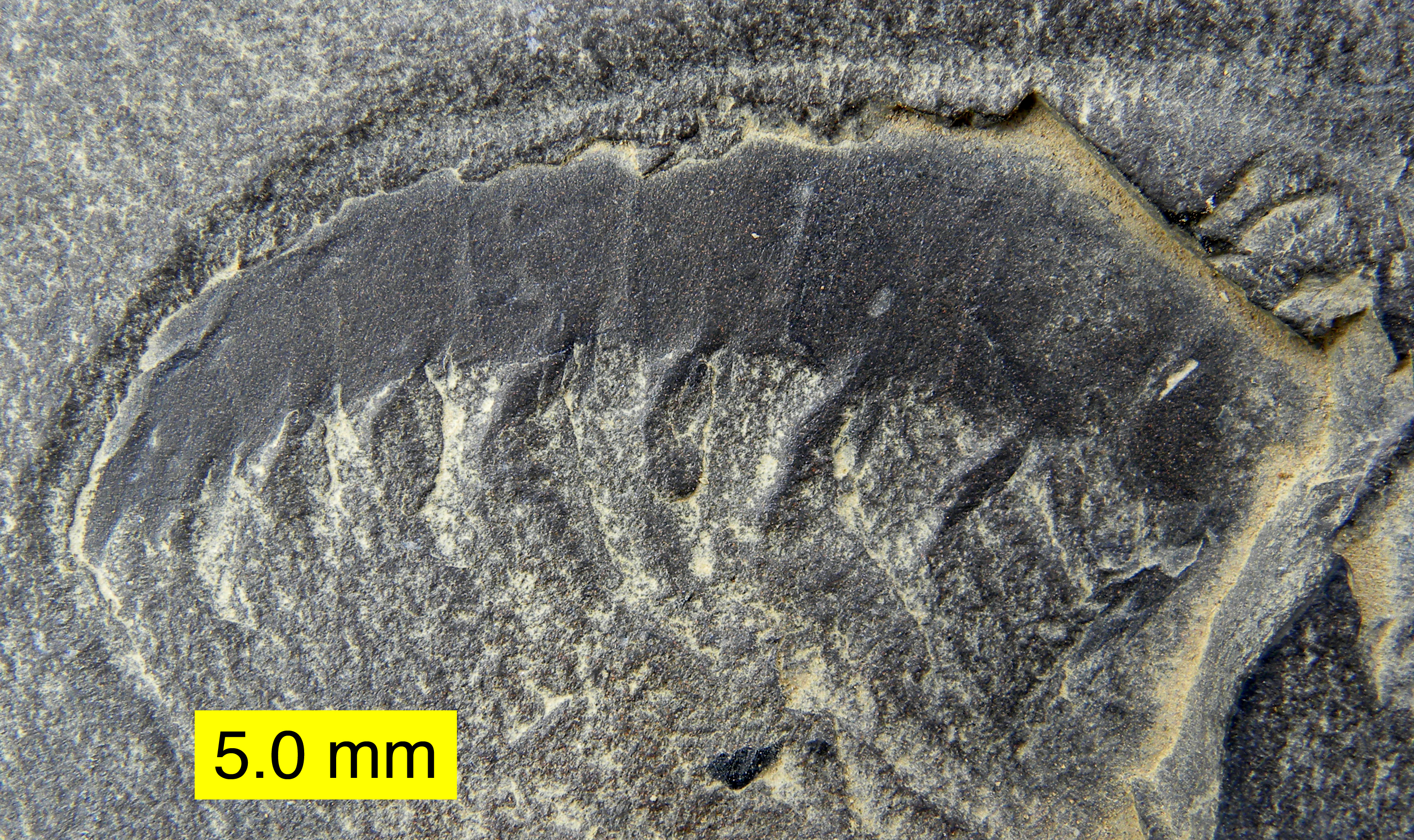 Anomalocaridid "arm" from the Burgess Shale, Walcott Quarry, British Columbia, Canada.